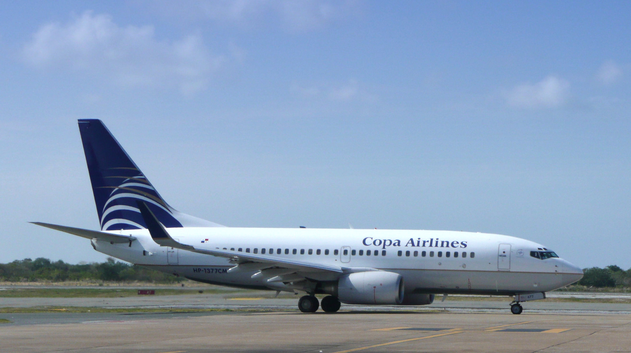 Copa Airlines Boeing 737-700 at Punta Cana International Airport, Dominican Republic.